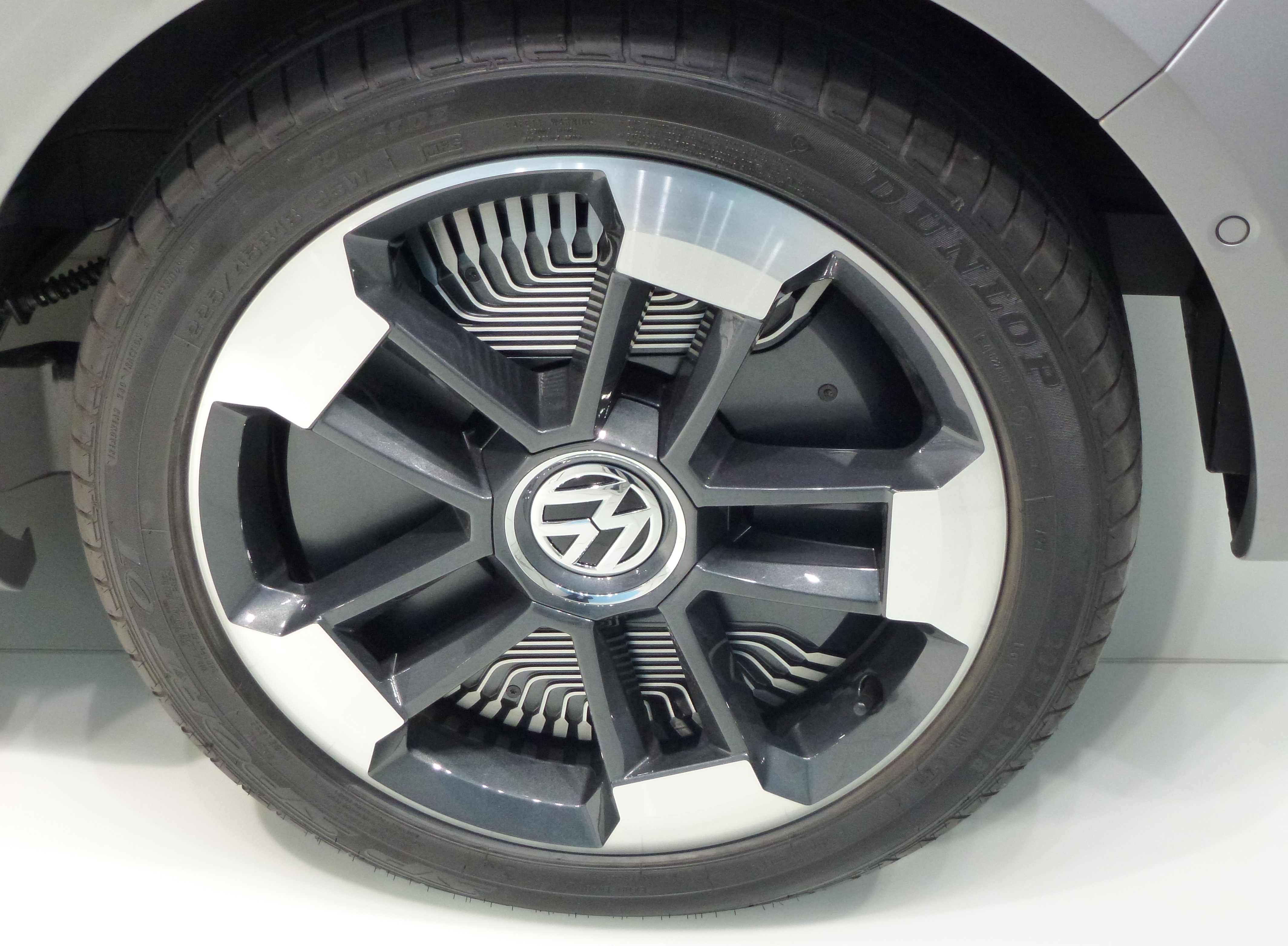 Volkswagen eT! Concept 2012